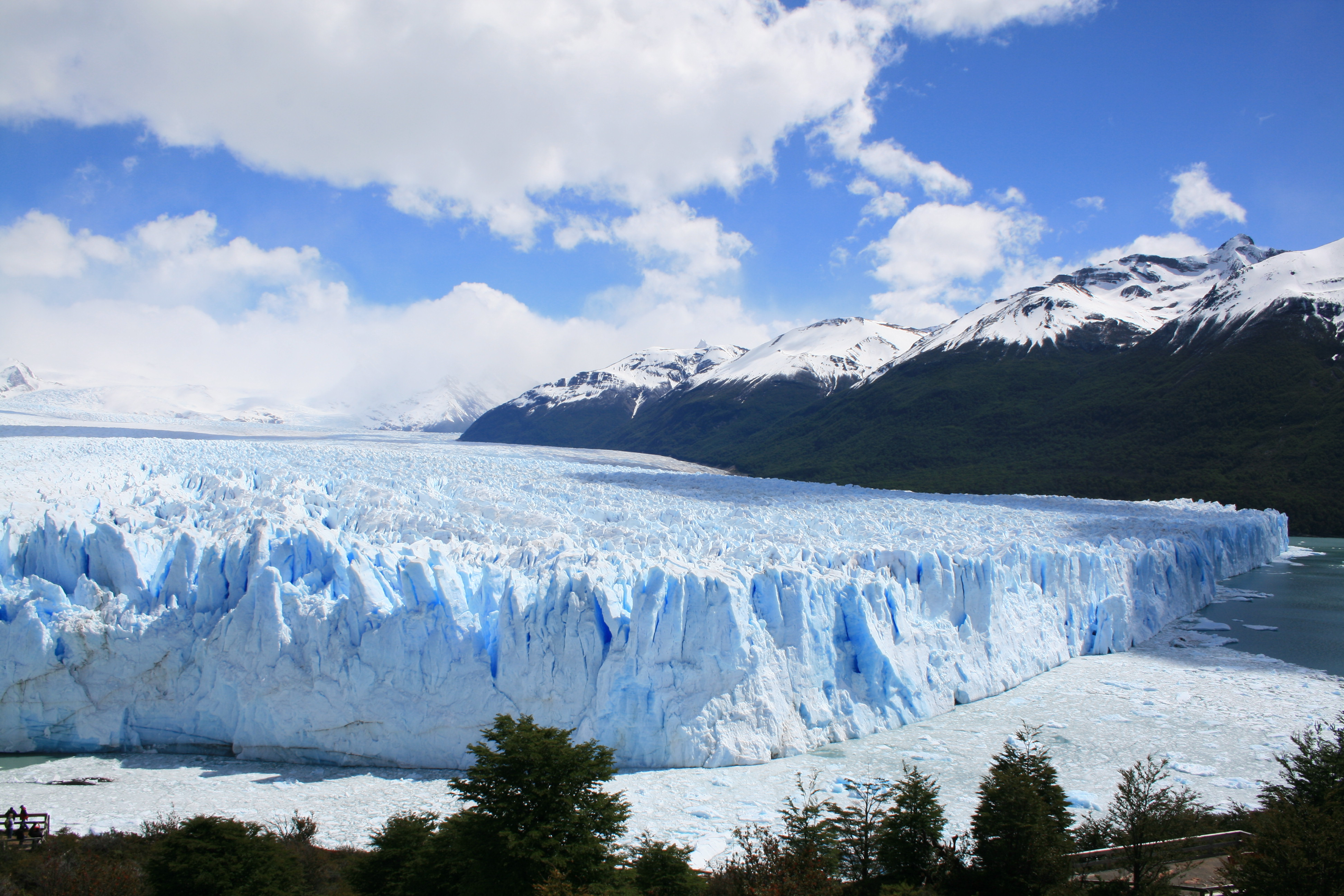 Perito Moreno Glacier, Argentina